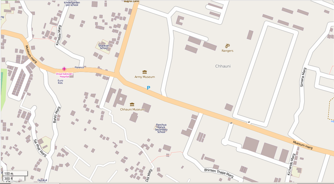 National Museum Road, Kathmandu, Nepal